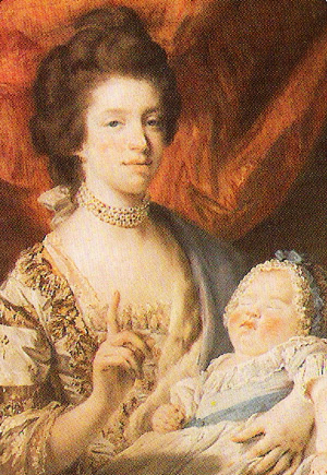 Queen Charlotte of Great Britain, holding Princess Charlotte, the Princess Royal